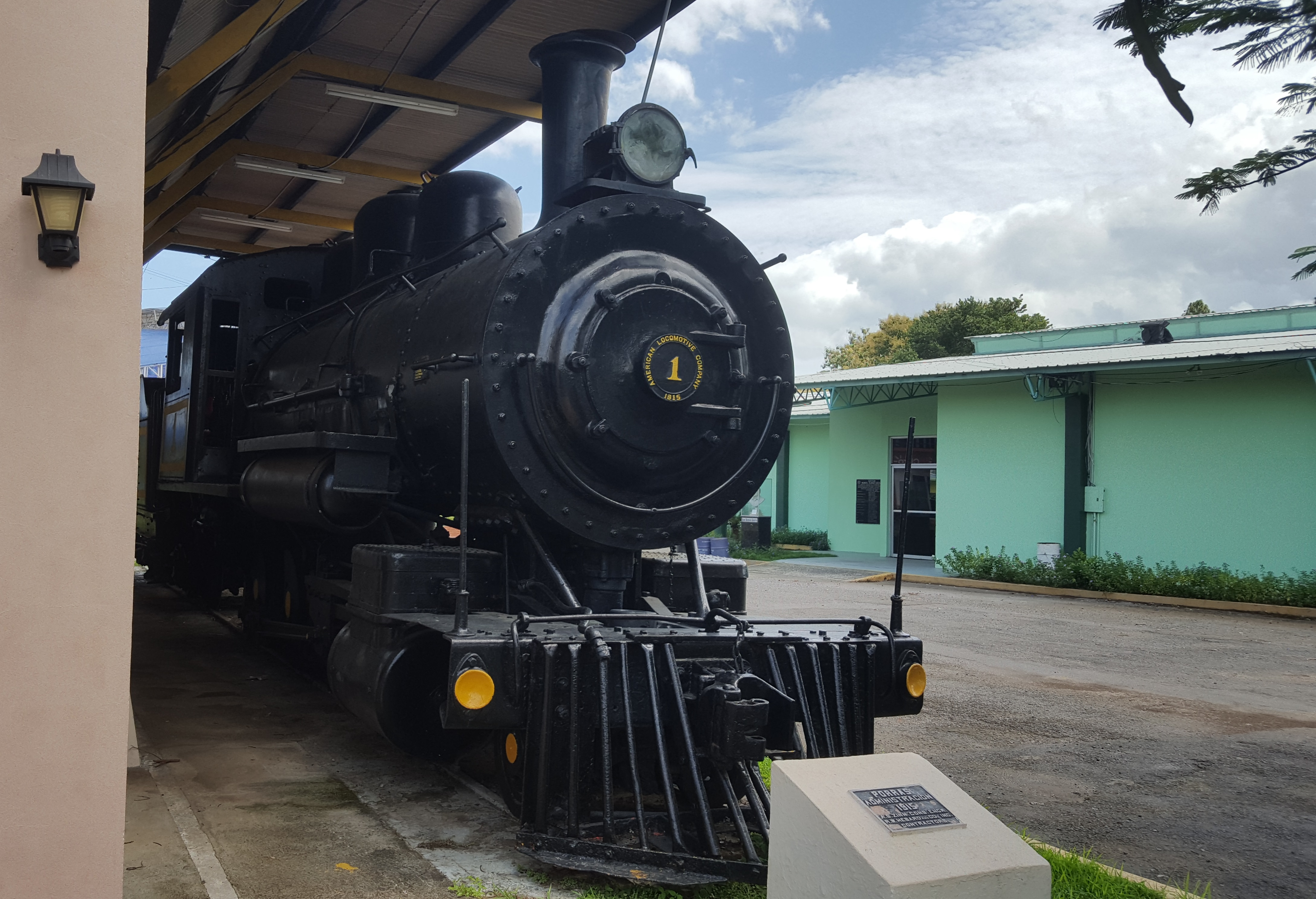 Ferrocarril de Chiriqui #1 narrow gauge steam locomotive built by ALCO Cooke March 1915, on display in the Feria Internacional de San Jose de David in David, Chiriqui, Panama.